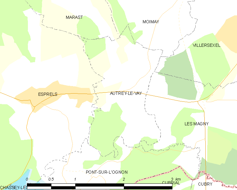 Map of French municipality